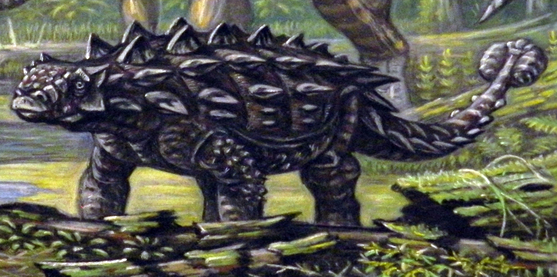 Zuul in environment.